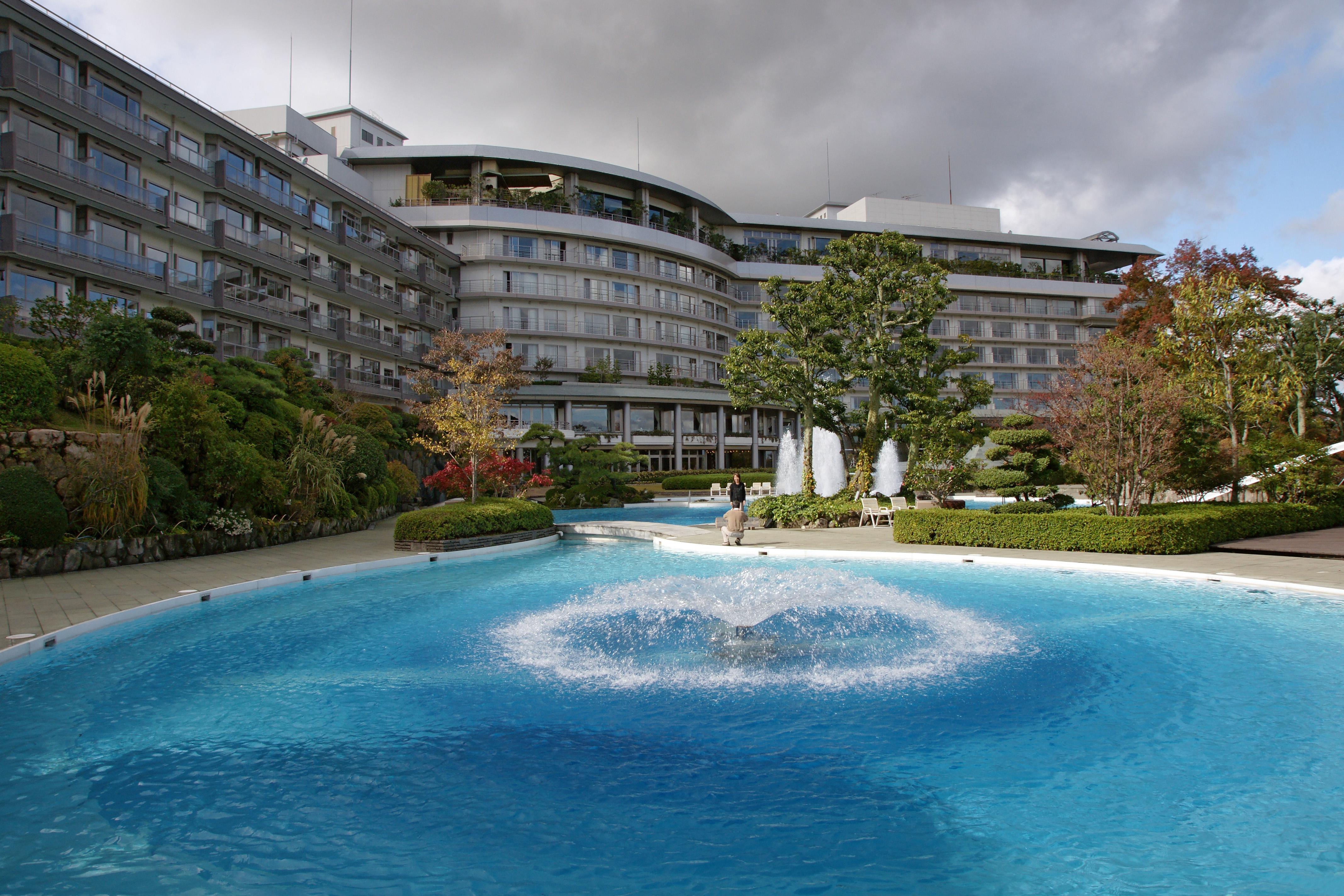 Arima Grand Hotel of Arima onsen in Kobe, Hyogo prefecture, Japan